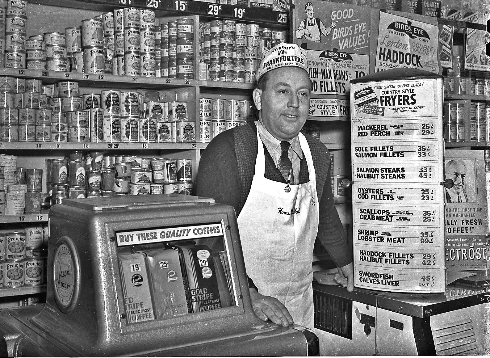 Home Market: 1941 in Worthington, Ohio One of a series of Worthington businesses I photographed for the Worthington News in March 1941. Genial owner, Clyde Bachelor, is pictured. The Home Market prices were a little higher than the chain stores across the street, but they carried top quality products. They had a butcher who cut meat to order. And they delivered. My grandmother, who didn't drive, had all her groceries delivered.